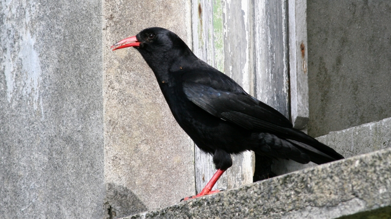 Chough Pyrrhocorax pyrrhocorax, Mount Gabriel, Co. Cork, Republic of Ireland.